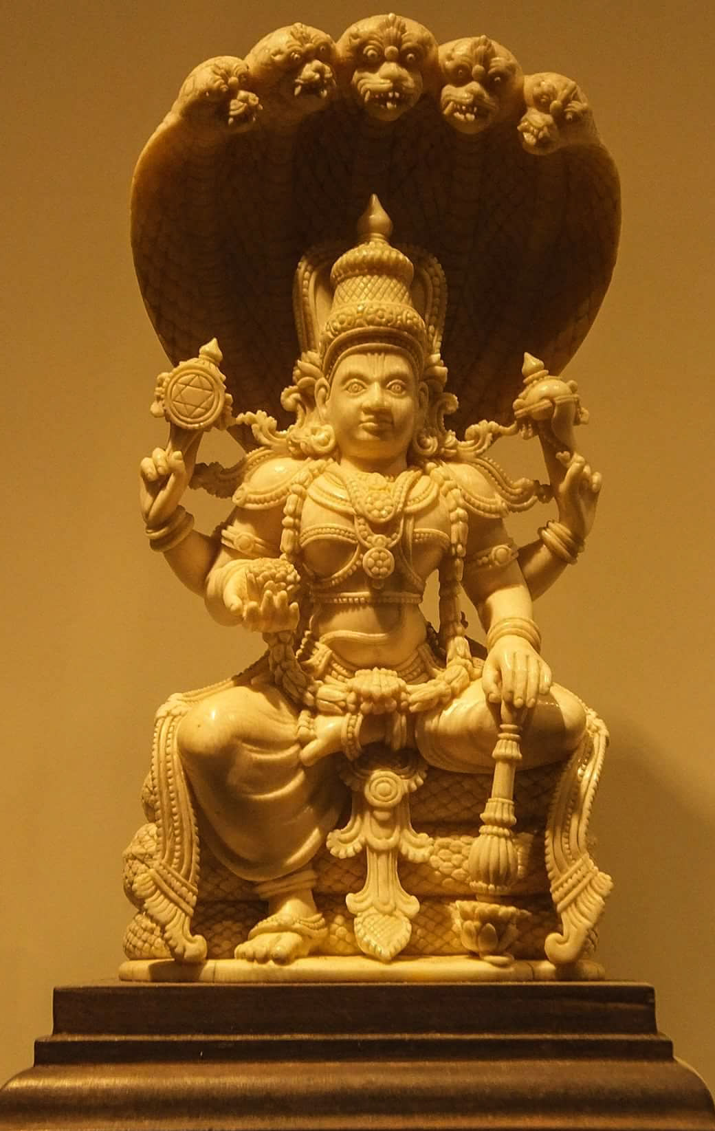 This ivory carving is 7 inches long and it has a great detail in its work. It's an old carving of lord Vrishnu who belongs to the holy Trinity of the Hindu Mythology. In this carving it's been shown he is sitting on a Lotus (Pankaj) and under a 5 headed Snake who's name is lord Vasuki the God of snakes, on his right hand he's holding a weapon called Sudharshan Chakra and a lotus, on the left side he is holding a Conch and it's called Dkhshina Varthi Shankh and Mace weapon called as Gada